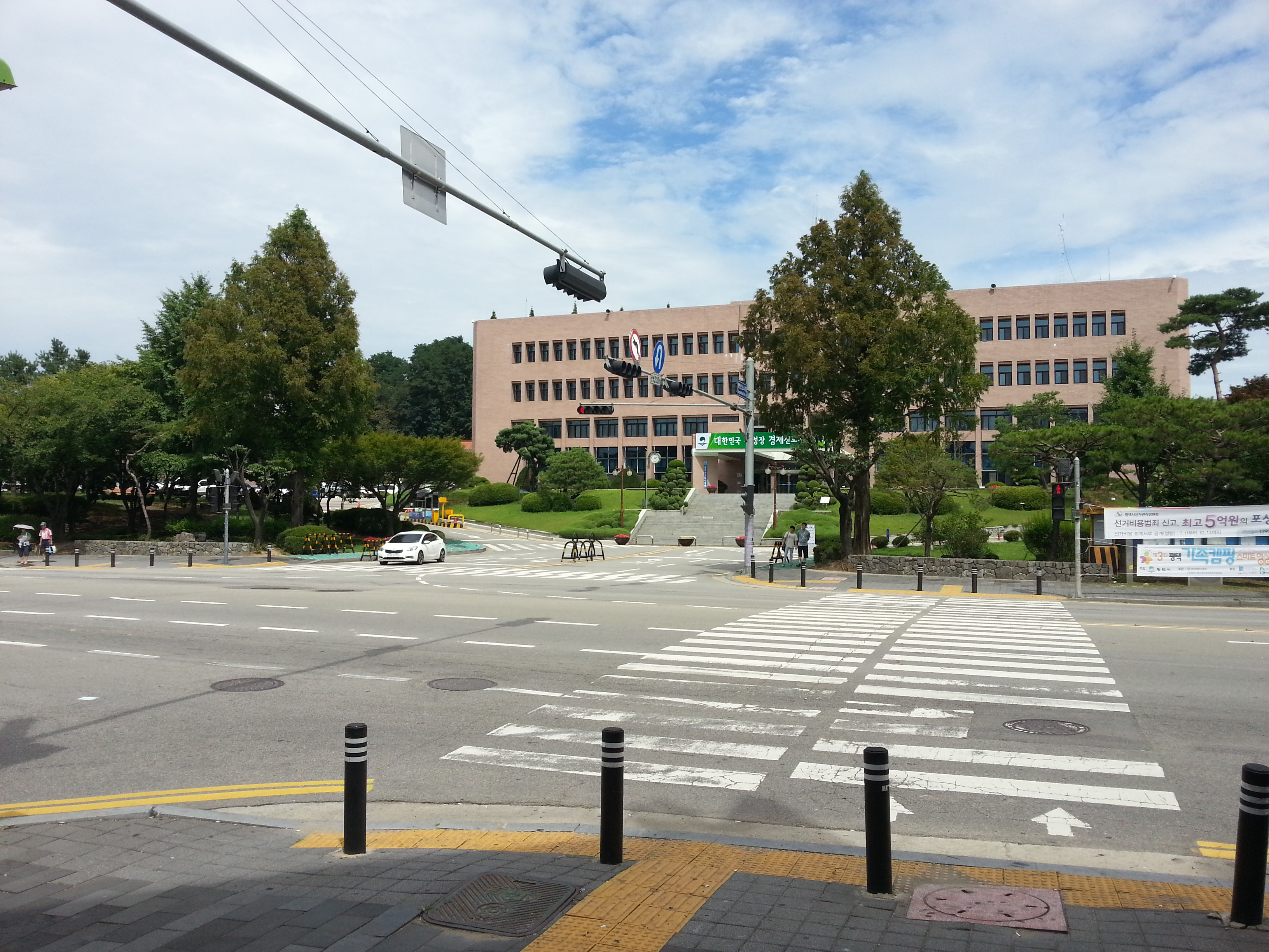 Pyeongtaek City Council located in the center of Songtan